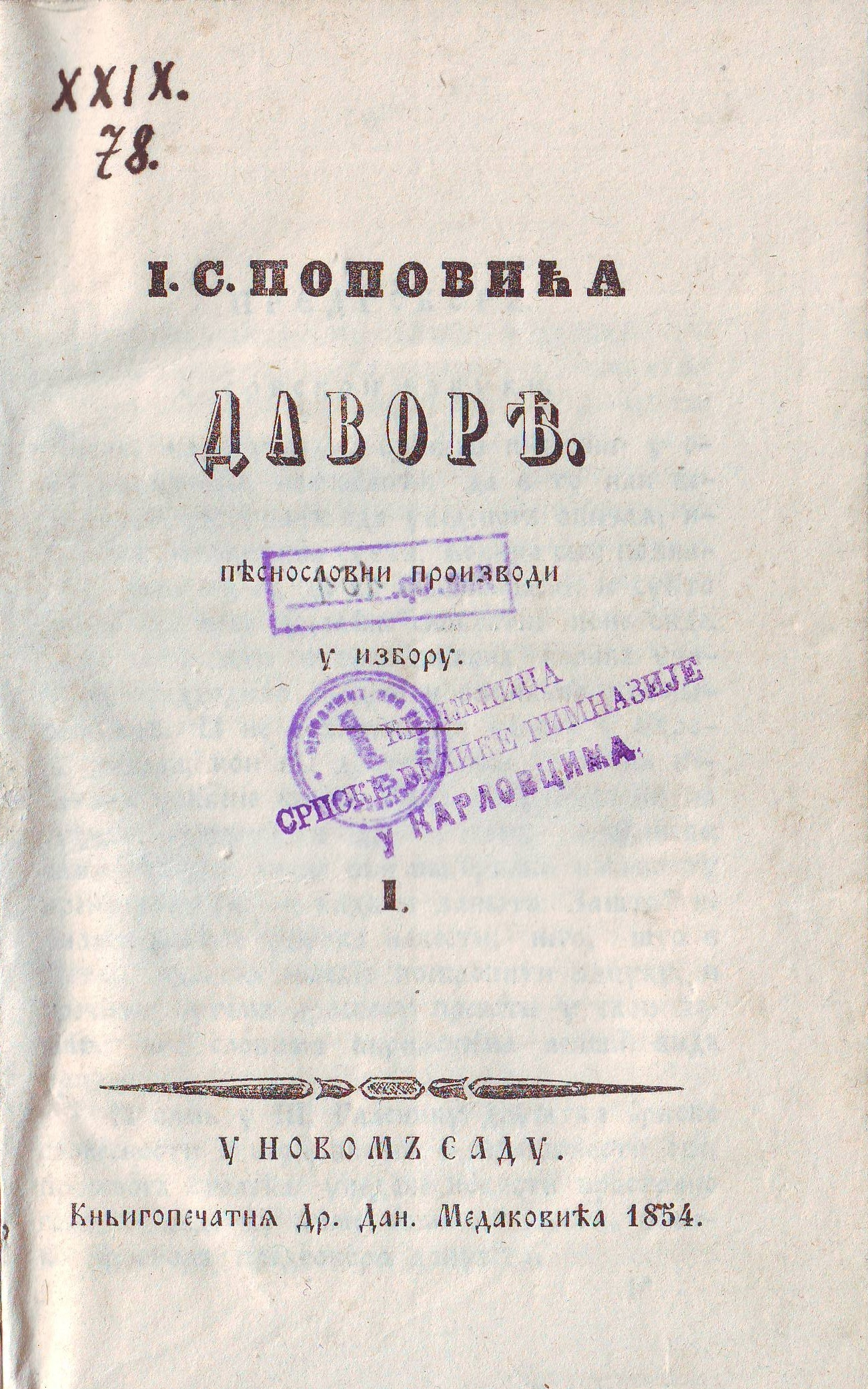 Cvoer of Davorje (1854) by Jovan Sterija Popović. Srpski (latinica): Naslovna strana Davorja (1854) Jovana Sterije Popovića.